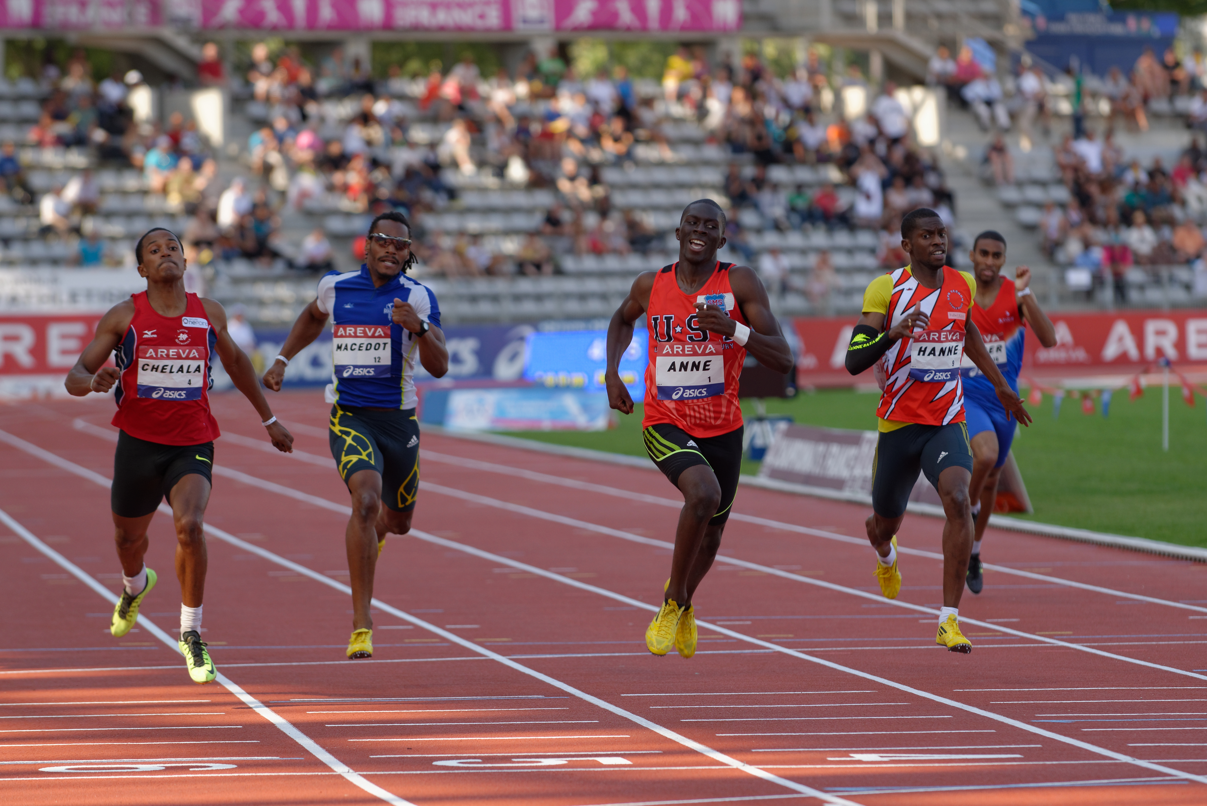 Mame-Ibra Anne runs to win the men's 400-metre race in 46″05 during the French Athletics Championships 2013 at Stade Charléty in Paris, 13 July 2013.